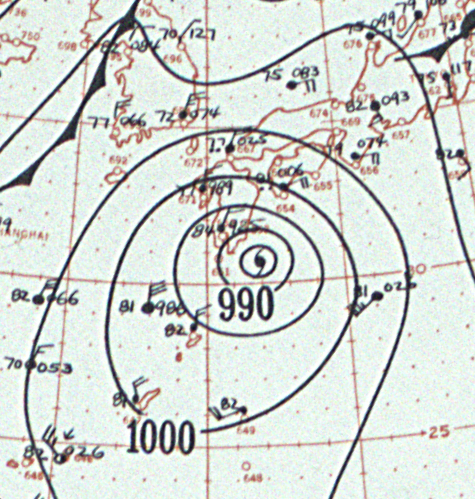 Surface analysis of a typhoon in the Philippine Sea on September 10, 1940. This typhoon later tracked in Japan, killing several people.